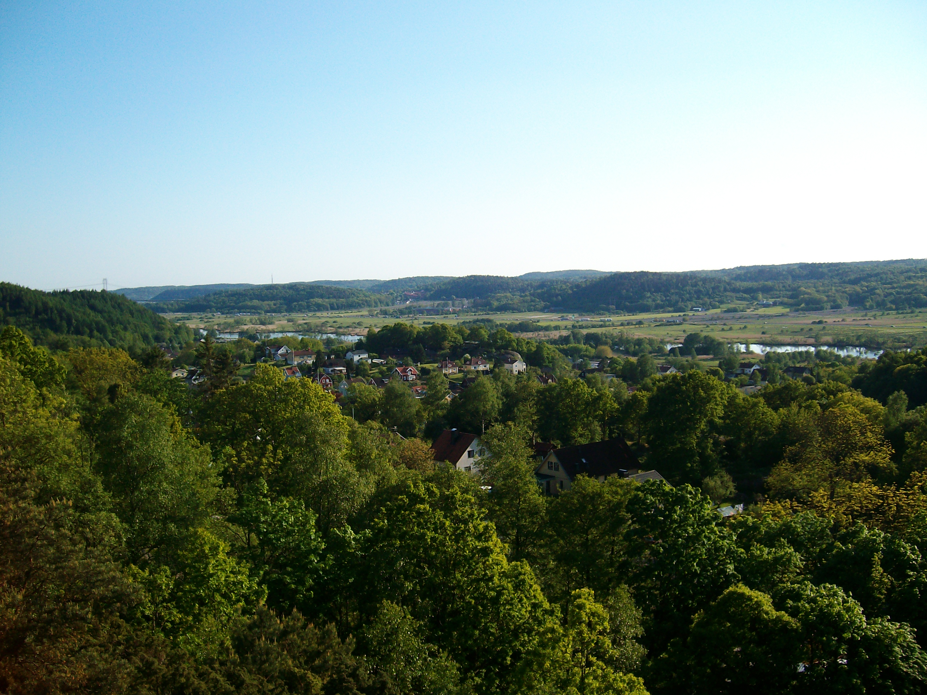 Picture of the southern part of Surte in Sweden.